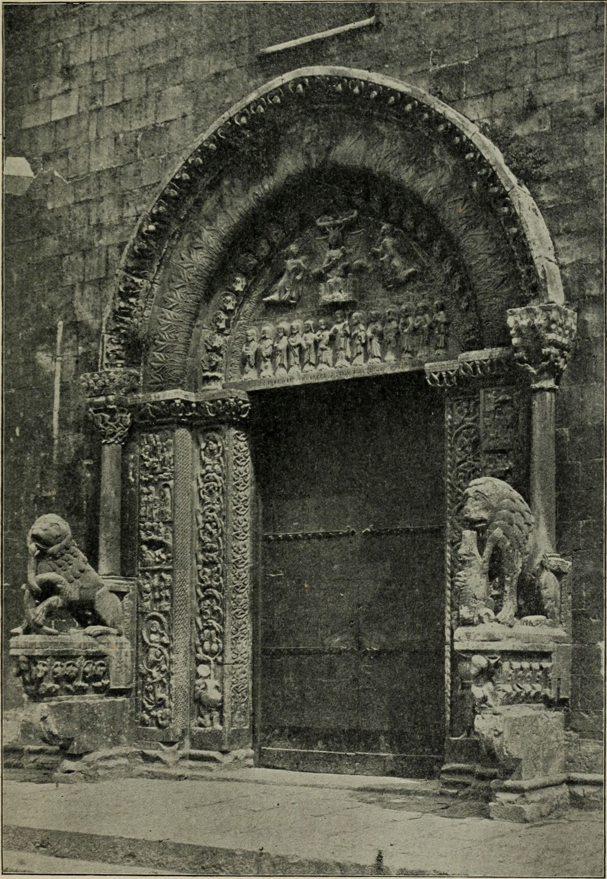 Title: A history of architecture in Italy from the time of Constantine to the dawn of the renaissance Year: 1901 (1900s) Authors: Cummings, Charles Amos, 1833-1905 Subjects: Architecture Publisher: Boston, New York, Houghton Mifflin and company Text Appearing Before Image: Fig. 272. Doorway at Terlizzi. I THE SOUTHERN ROMANESQUE 53 much ruined doorway of Rutigiiano. But sometimes this continuityis neglected, as in the church del Rosario at Terlizzi (Fig. 272),where the principal subject is the arrival of the three wise men atthe stable, the Virgin lying on a couch, with the infant Christ in a Text Appearing After Image: Fig. 273. Bitetto. Central Doorway of Fagade. 54 ARCHITECTURE IN ITALY manger above, while on one side of this group Christ is extendedon the cross, and on the other side is what appears to be an Annun-ciation, in which the figures are quite out of scale with the others.^ The flat faces of the piers which form the jambs of the doorway,frequently repeated in several orders, are generally examples ofByzantine floral decoration, with a meandering vine wreathing itselfinto infinitely varied geometrical figures, circles, ovals, squares, orlozenges, charged with figures of beasts and birds, with foliage,flowers, and fruit. In the more striking examples, the broad sur-face is divided into distinct squares, each with a group of figures inhigh relief, often of extreme delicacy and beauty, as in the outerpiers of the central doorway of the cathedral of Bitetto ; and nota-bly at Altamura (Fig. 274), where the lowest compartment on eitherside is a decorated niche (one with a cusped and pointed ar